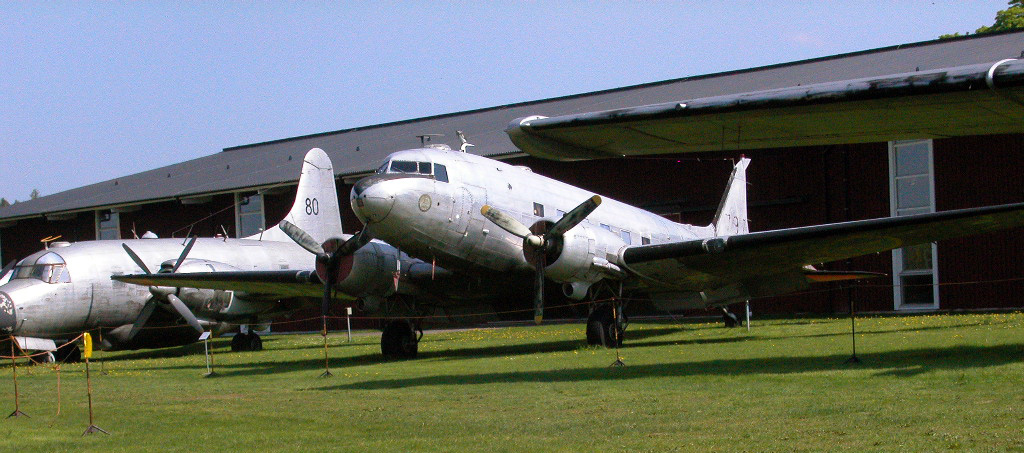 (Cropped version of image TP_79-79007_FVM_Photo_Kapten_Kaos.jpg) Douglas C-47/DC-3 as a Swedish Air Force Tp 79 carrier aeroplane, military reg. no. 79007, on permanent static display at Flygvapenmuseum (Air Force Museum), Malmen Airfield, Linköping, Sweden. to the left a Tp 82, Vickers Varsity. Photo taken in May 2003, by me, Kapten Kaos. I hereby release this image in Public Domain. Enjoy :-D